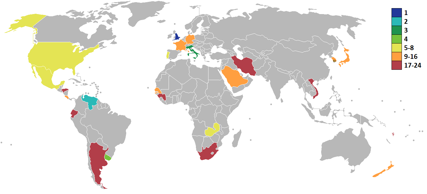 Map of results of the 2017 FIFA U-20 World Cup.